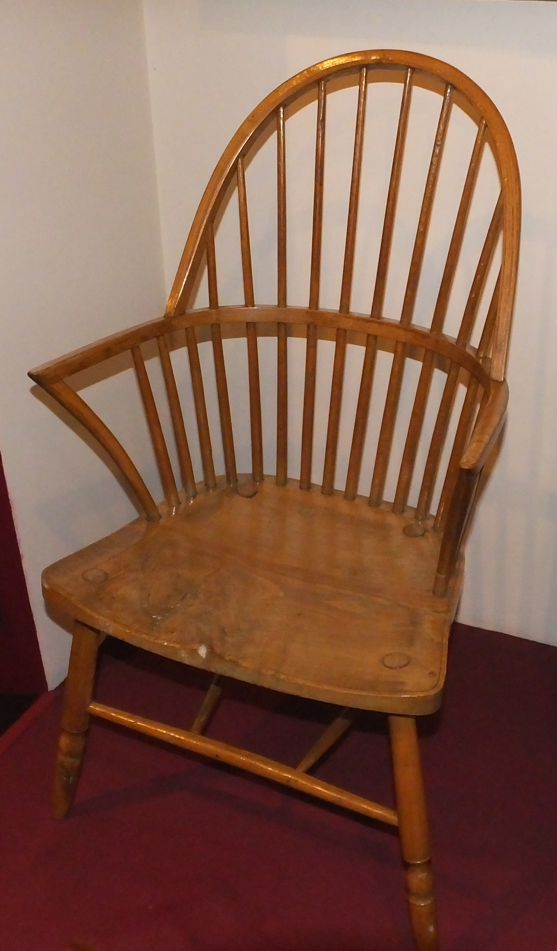 Taken during the tour and editathon at the Judges' Lodgings, Lancaster. Items of furniture. Gillows Windsor chair 1890 Ash & Elm